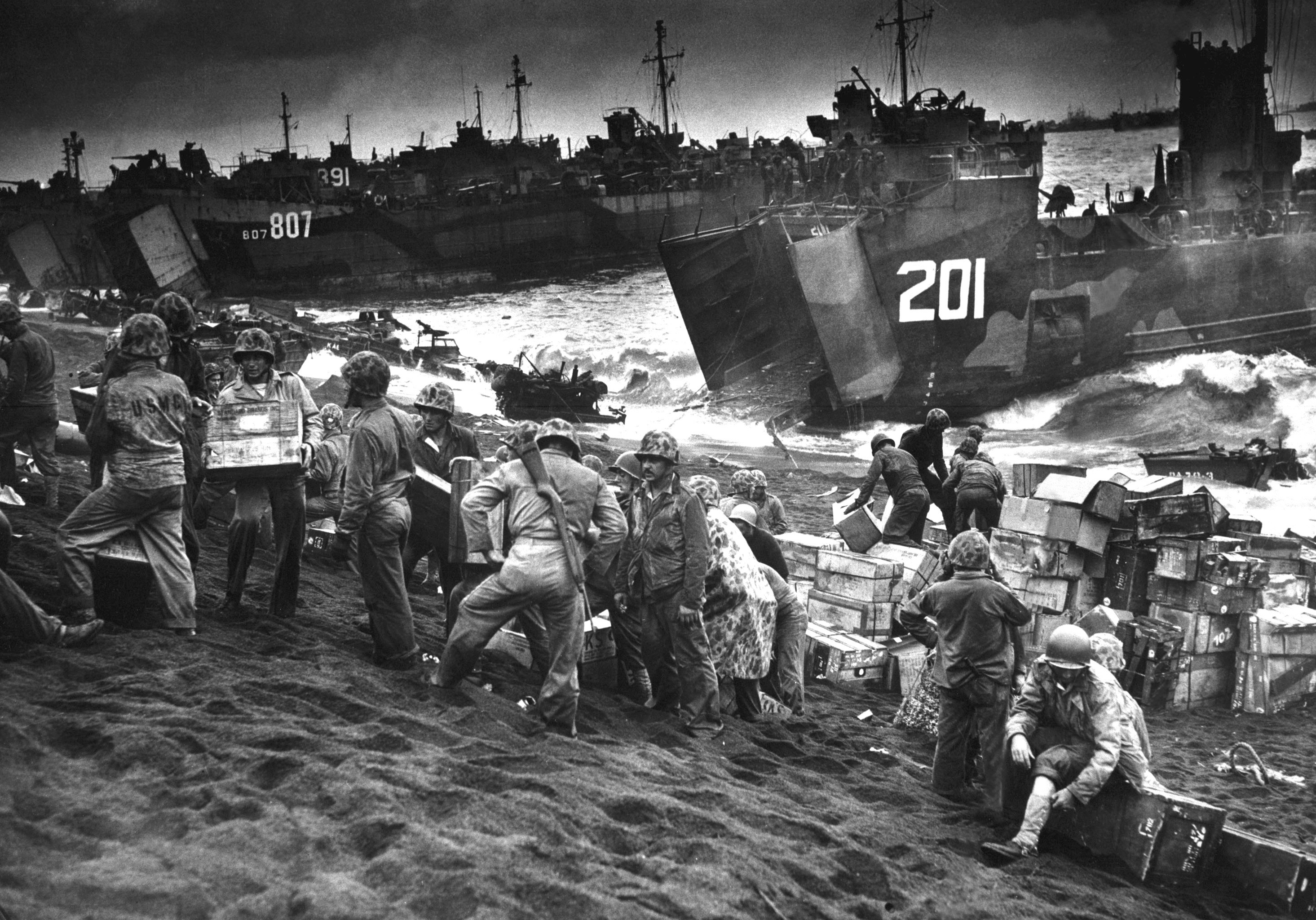 Out of the gaping mouths of Coast Guard and Navy Landing Craft, rose the great flow of invasion supplies to the blackened sands of Iwo Jima, a few hours after the Marines had wrested their foothold on the vital island. 1945. This squad of Marines, 2nd Separate Engineer Battalion, Co. B, unloads supplies on Red Beach, Iwo Jima. To the left, (beneath the “807”) balancing two wooden boxes is Malinowski. Louis Hill, with “USMC” across his back, is to the left of Malinowski and directly across from Hill is his buddy Harry Lee Jones. Nearer the surf is Staff Sergeant Ingram lifting a box (seen as a white diagonal line). George “Frank” Hoyt is partially visible to the left of a carbine stock slung over the shoulder of an unknown Marine. To the right of the unknown Marine, is Fink, in profile. Martini, with the moustache, stands alert. The half-hidden face at the very end of the “bucket-brigade” is Cpl. Leonard W. Pojunas, Sr., just below the doors of the open LSM 201. Standing to the far right and facing away is Staff Sergeant Stubby Green. Sitting next to Green is Shirley tightening his gaiter. The 2nd Eng. Battalion had sailed from APRA Harbor, Guam February 16, 1945 on LST 725, LST 247, and LSM 143. February 20, 1945 the battalion was off Iwo Jima. February 21, at 18:30, LST 725 was beached on Iwo Jima at Red Two and LST 247 at Yellow One. Both LSTs were retracted February 22 for a more suitable ramp on Red One, where unloading continued under mortar fire from the Japanese.